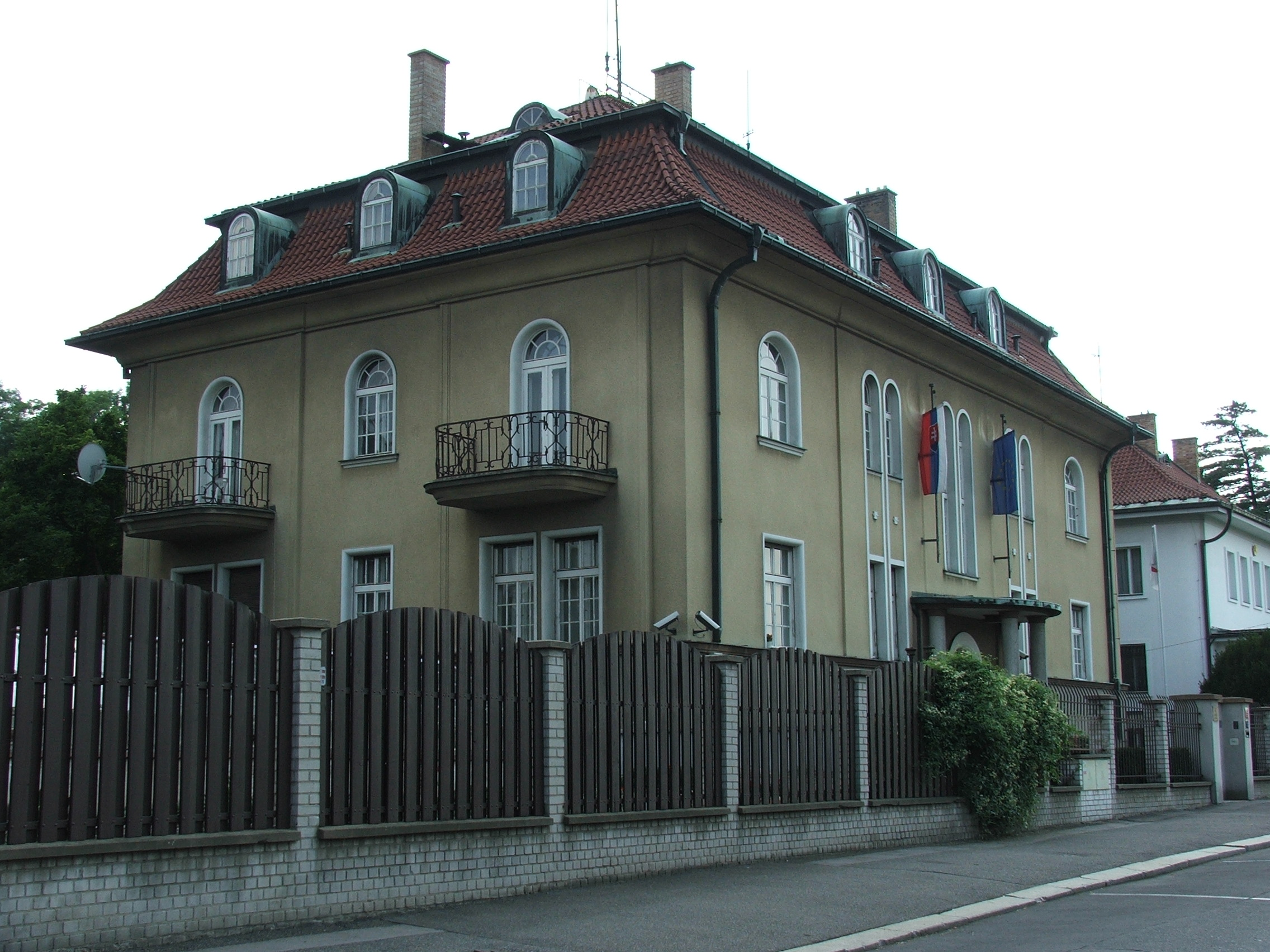 Embassy of Slovakia in Prague - Střešovice, Czechia